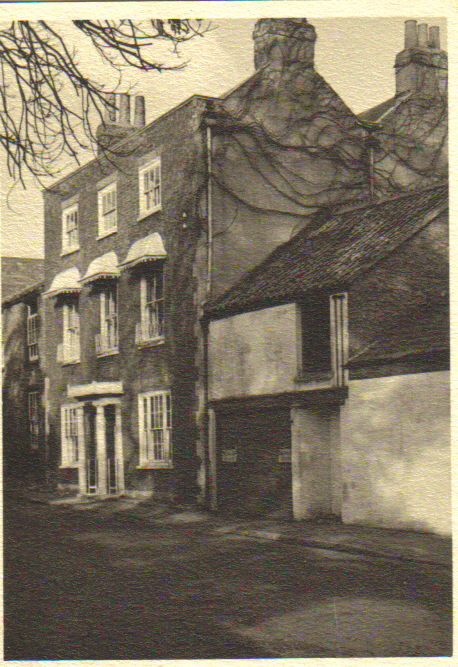 Blakesley Lodge, 2 Green Street, Sunbury-on-Thames.